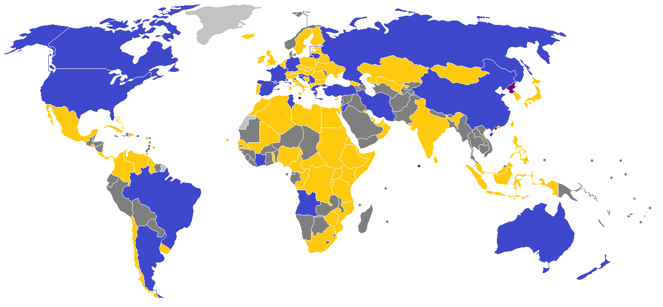 Qualifying for the w:2010 FIBA World Championship *Green = Already qualified *Violet = Did not enter qualifying tournaments *Gray = Not a FIBA member Tournaments done/ongoing: *Blue = Team may still qualify *Red = Team already eliminated Tournaments to be held: *Blue = Team has signaled intention to join a qualfying tournament *Maroon = Team has not signaled on entering a qualifying tournament